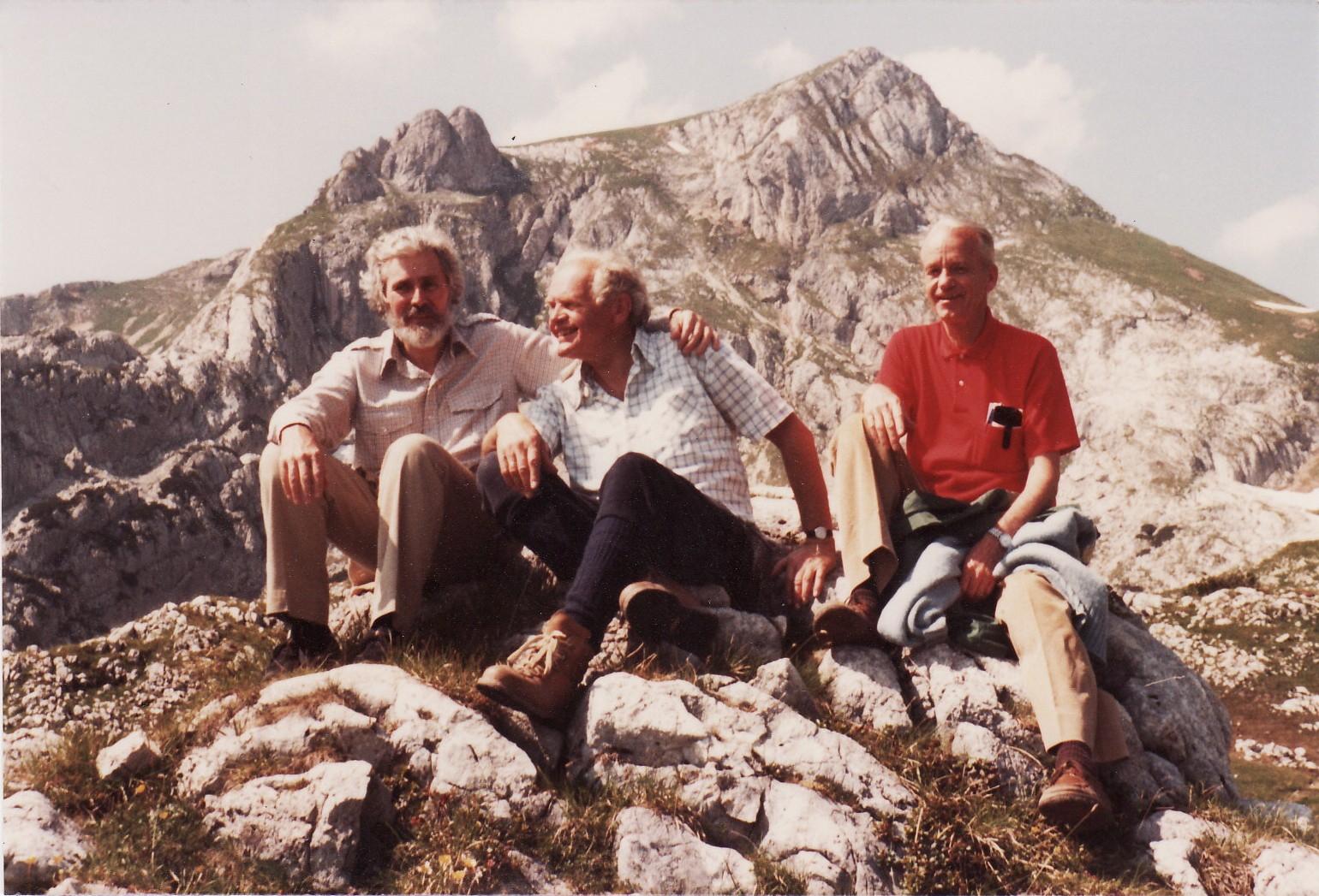 Carl Woese (left), Otto Kandler and Ralph Wolfe (right) on their way to Mt. Hochiss (2299m, Austria), after the first international conference on (at that time) "archaebacteria", which was organised by Kandler in Munich, in 1981. Photo published inː Govindjee & Tanner, Widmar (2018). Remembering Otto Kandler (1920–2017) and his contributions. Photosynthesis Research. Supplementary Material